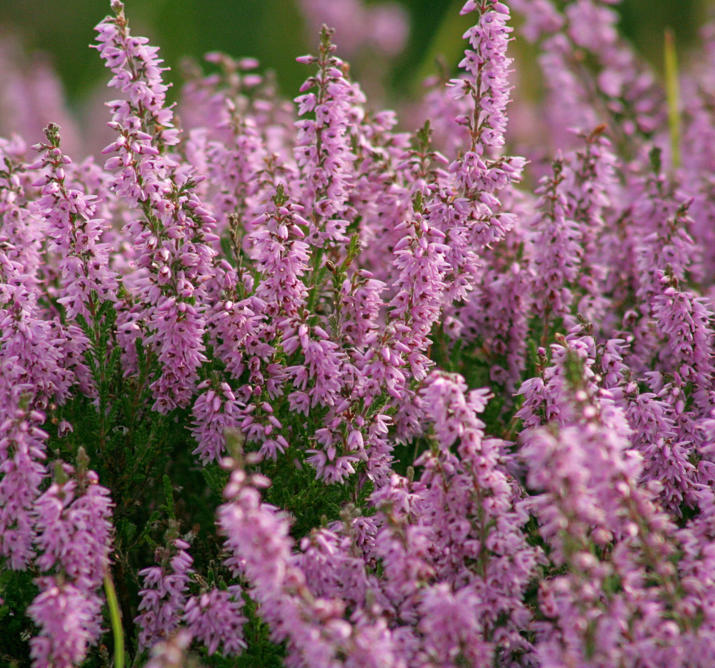 Heather (Calluna vulgaris), growing wild in the Highlands of Scotland.